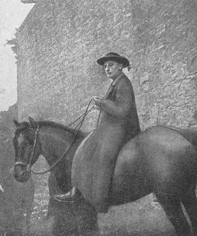 Copyright expired photo of Bishop Della Chiesa in 1906